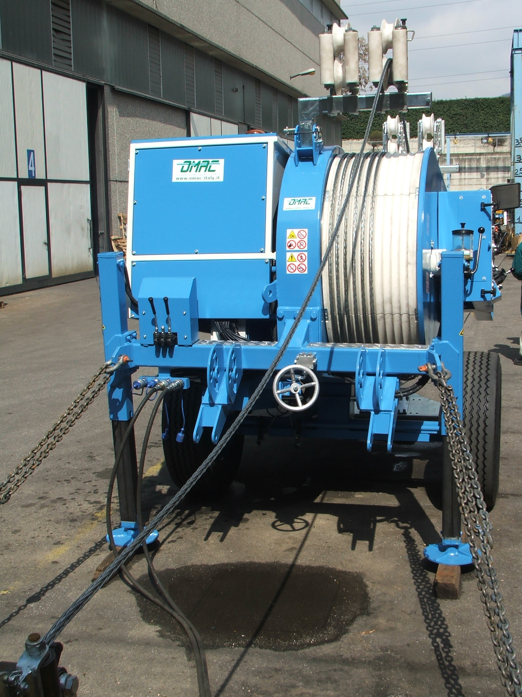 OMAC puller-tensioner (1500 mm capstan) for stringing of overhead power lines